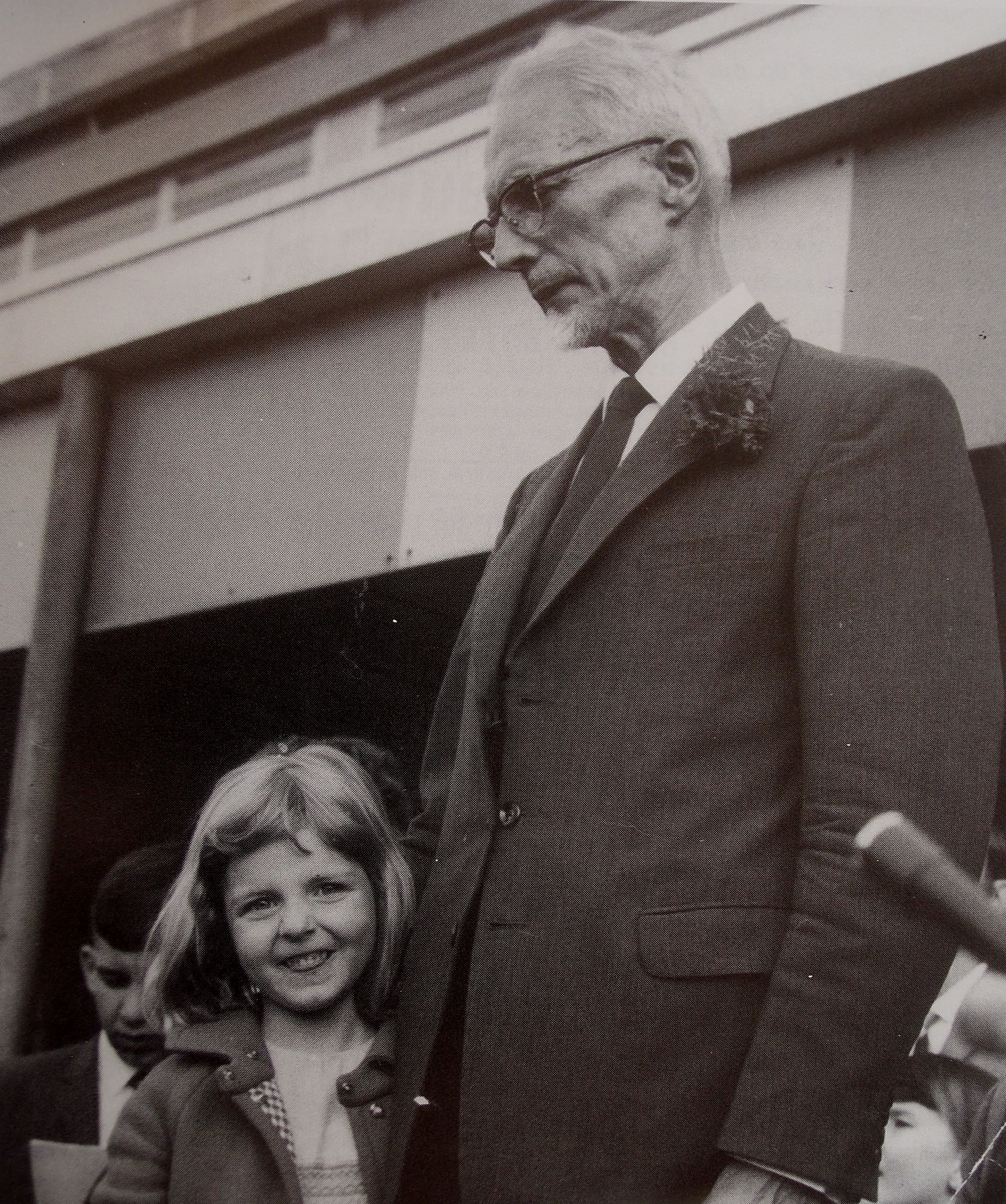 JAM Hertzog - 4.10.1969